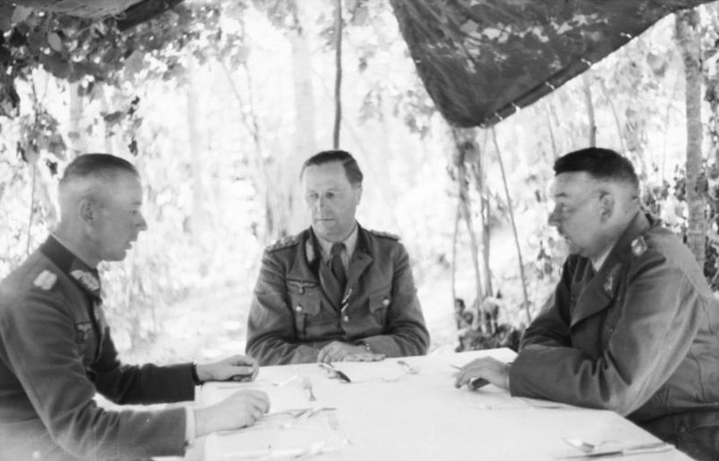 EN translation: Soviet Union - Operation "Citadel", Generals in conference sitting at the table, from left: Walter Charles de Beaulieu, Hermann Breith, Werner Kempf. [Note: This photo was taken two weeks before Citadel (the battle of Kursk). Breith and de Beaulieu were subordinate commanders under Kempf.].